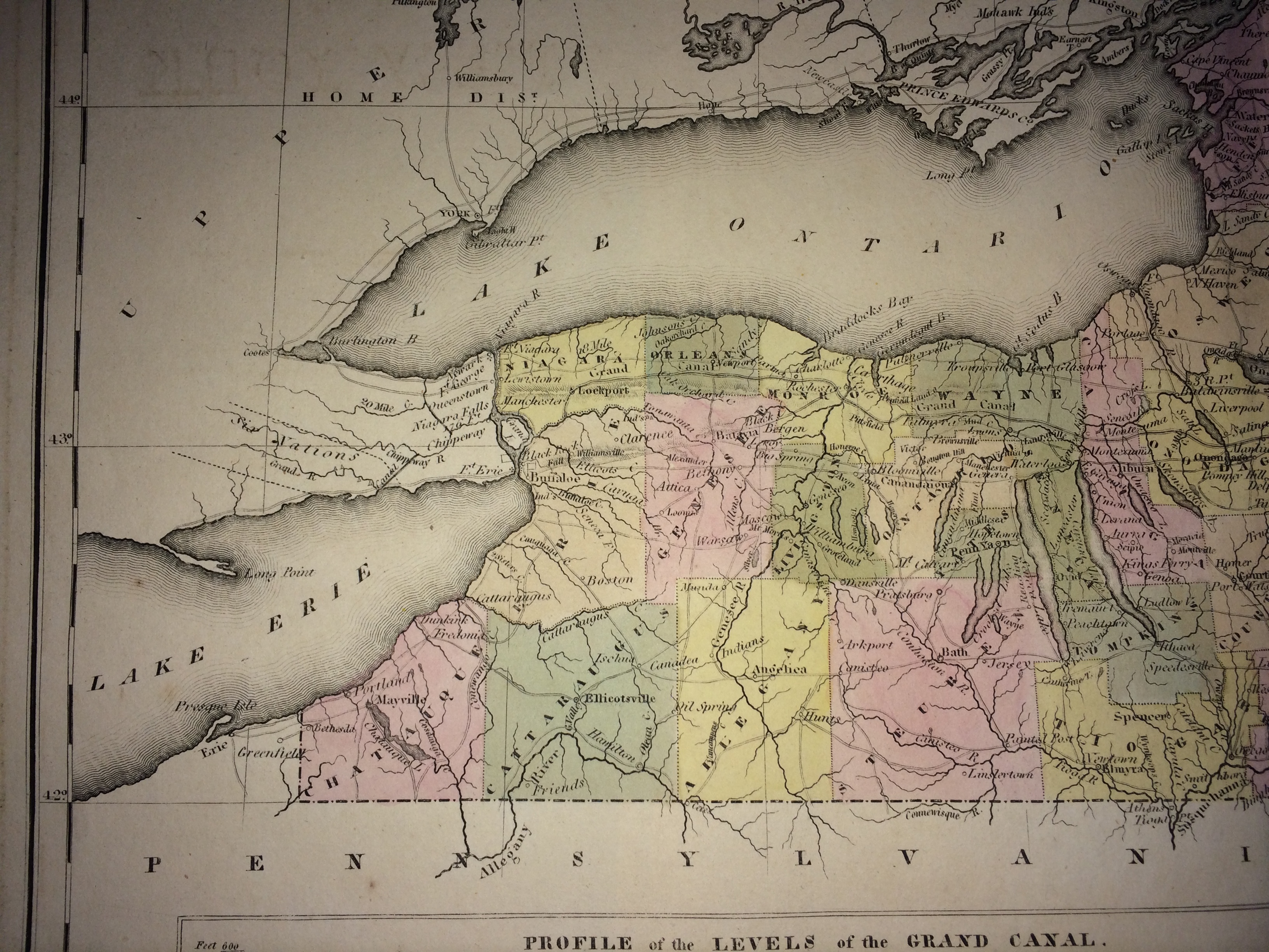 This map is Titled: "Geographic, Statistical, and Historic Map of New York, printed in 1827